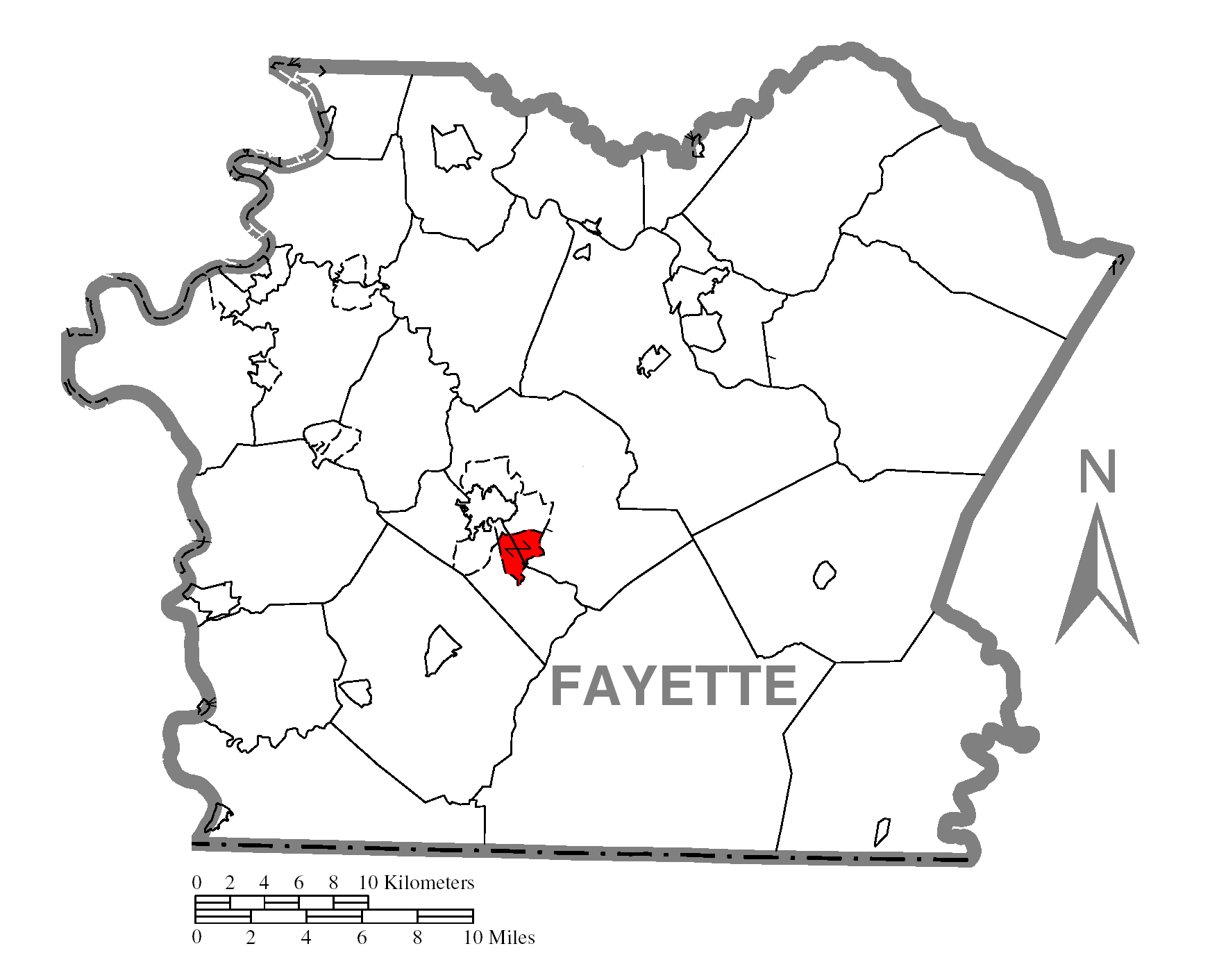 Map of Fayette County higlighting Hopwood.